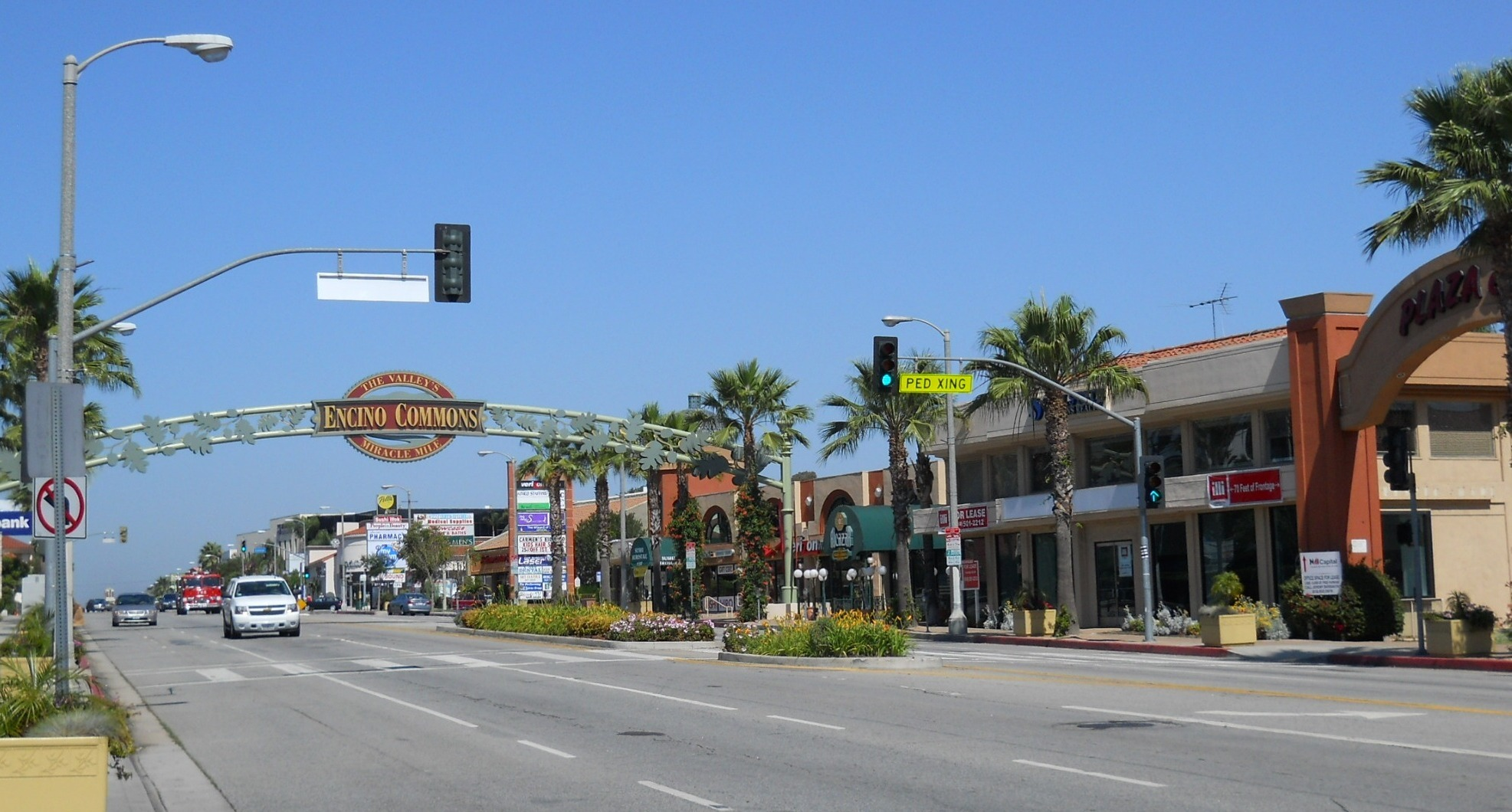 Encino Commons, the San Fernando Valley's "Miracle Mile", Encino, Los Angeles, California